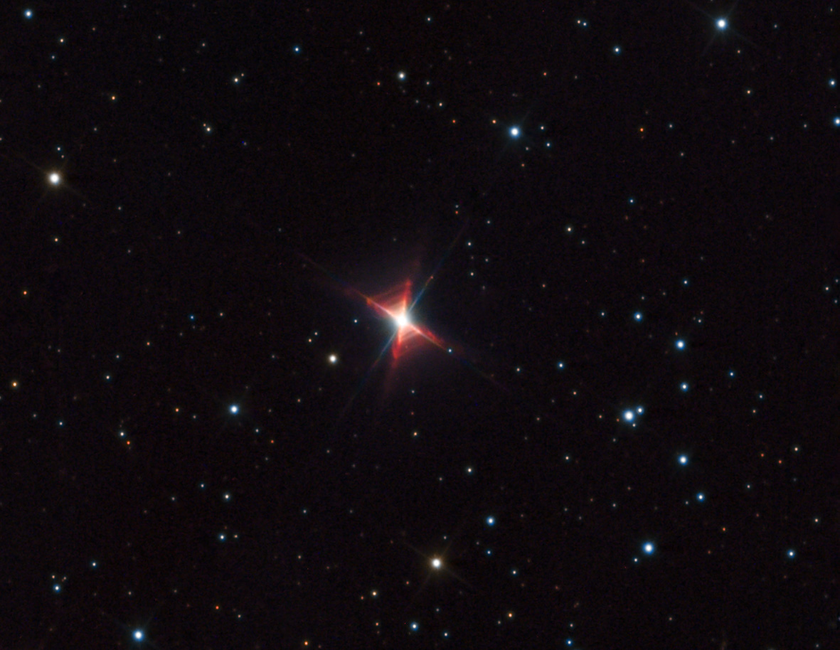 Deep exposures of Nebulae using the 0.8m Schulman Telescope at the Mount Lemmon SkyCenter Credit Line & Copyright Adam Block/Mount Lemmon SkyCenter/University of Arizona